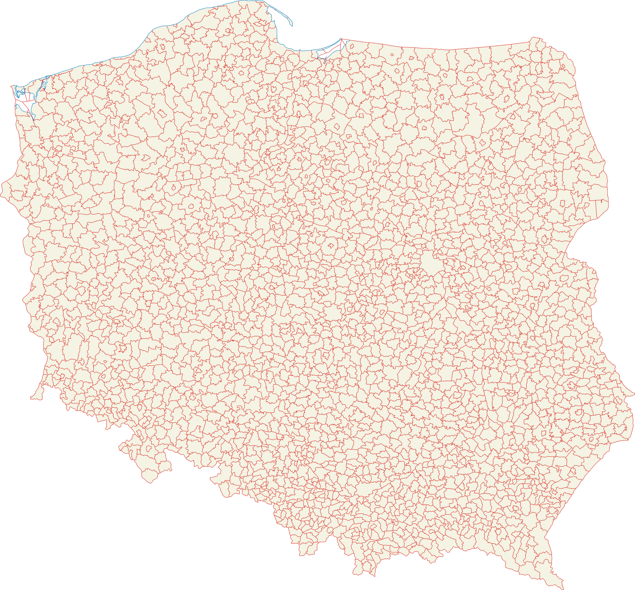 Administrative map of Poland with borders gminy (communes), as of January 1, 2008